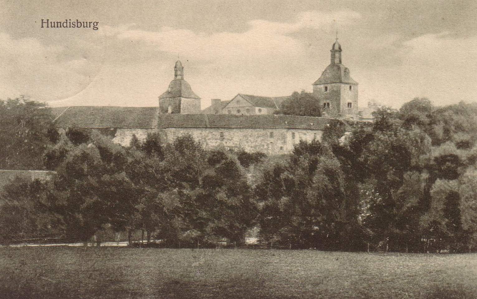 View to castle Hundisburg (near Magdeburg), Germany